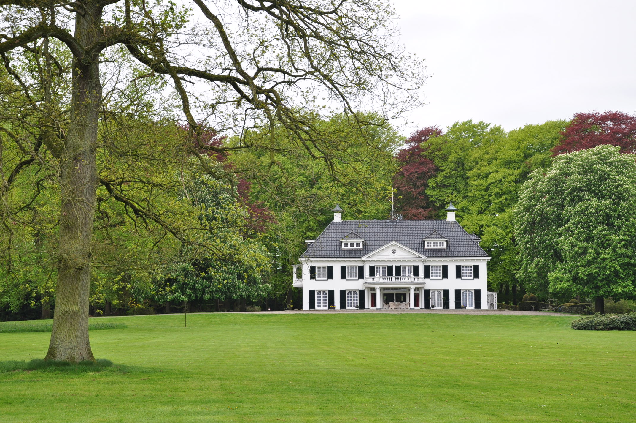 Zonnebeek Mansion/Estate was built in 1907 by the Dutch textile family Van Heek and is situated near Enschede in the eastern part of the Netherlands (Province Overijssel).